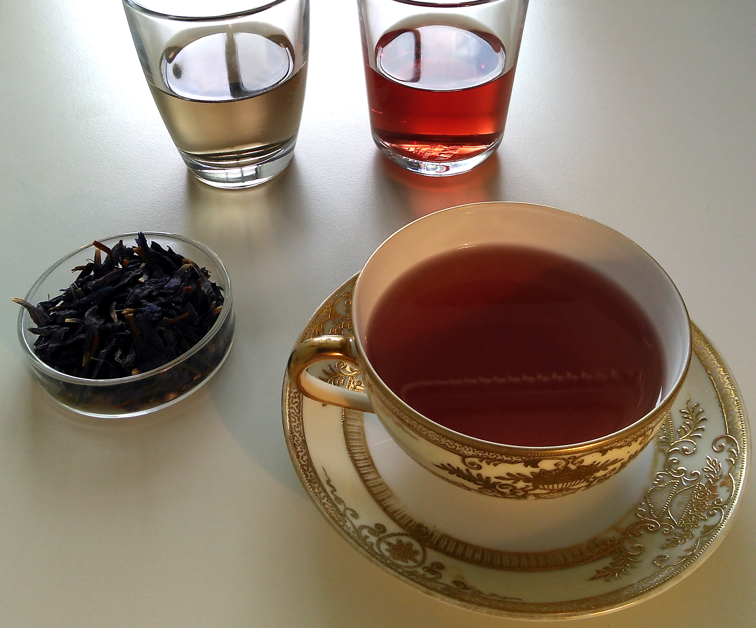 Dried blossoms, a cup of tea, and the color of the tea, depending on pH of Echium Amoenum. Background: two glasses of tea. To the left freshly brewed in slightly alkaline tap water; to the right with a dash of lemon juice.